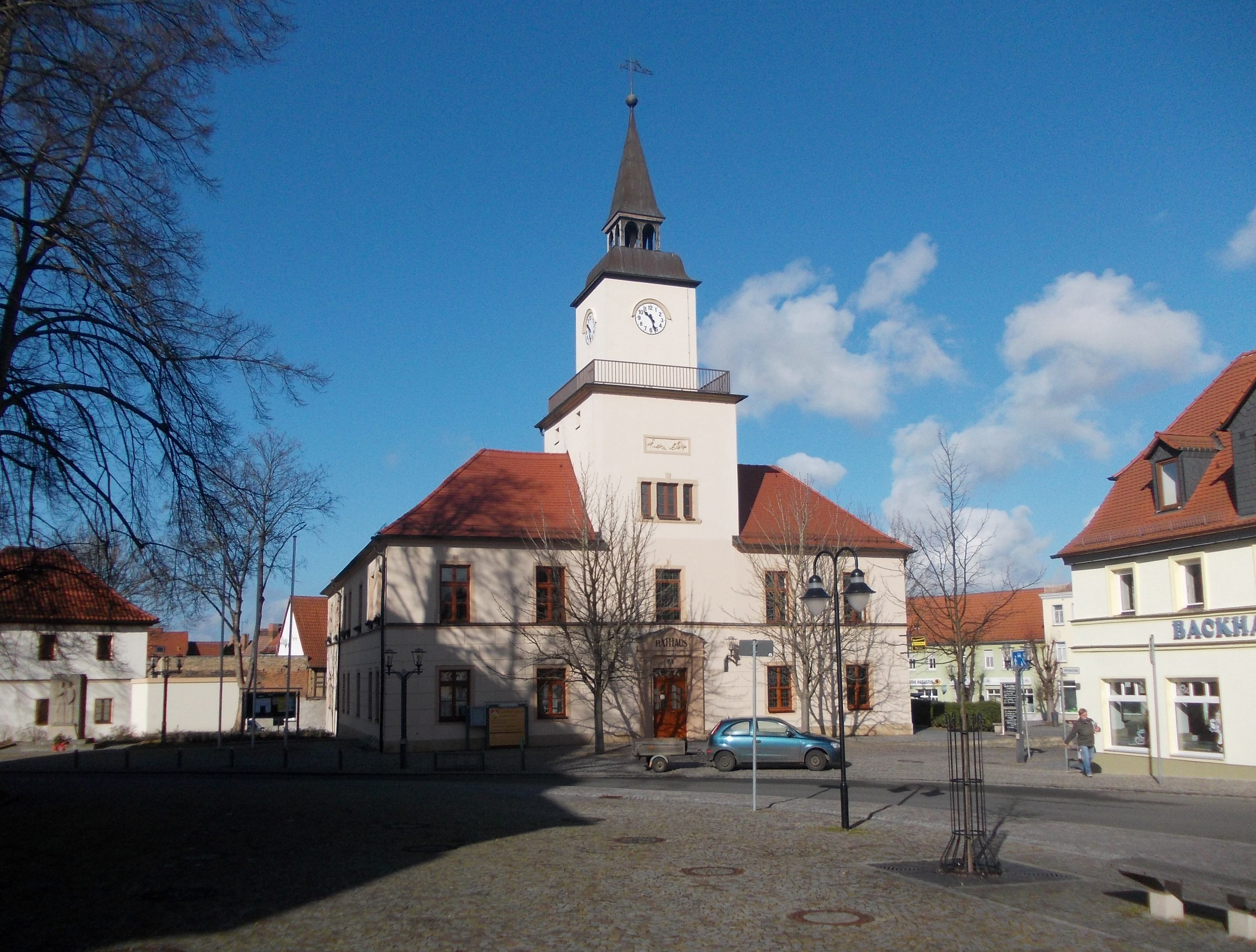 Town hall in Hohenmölsen (district: Burgenlandkreis, Saxony-Anhalt)